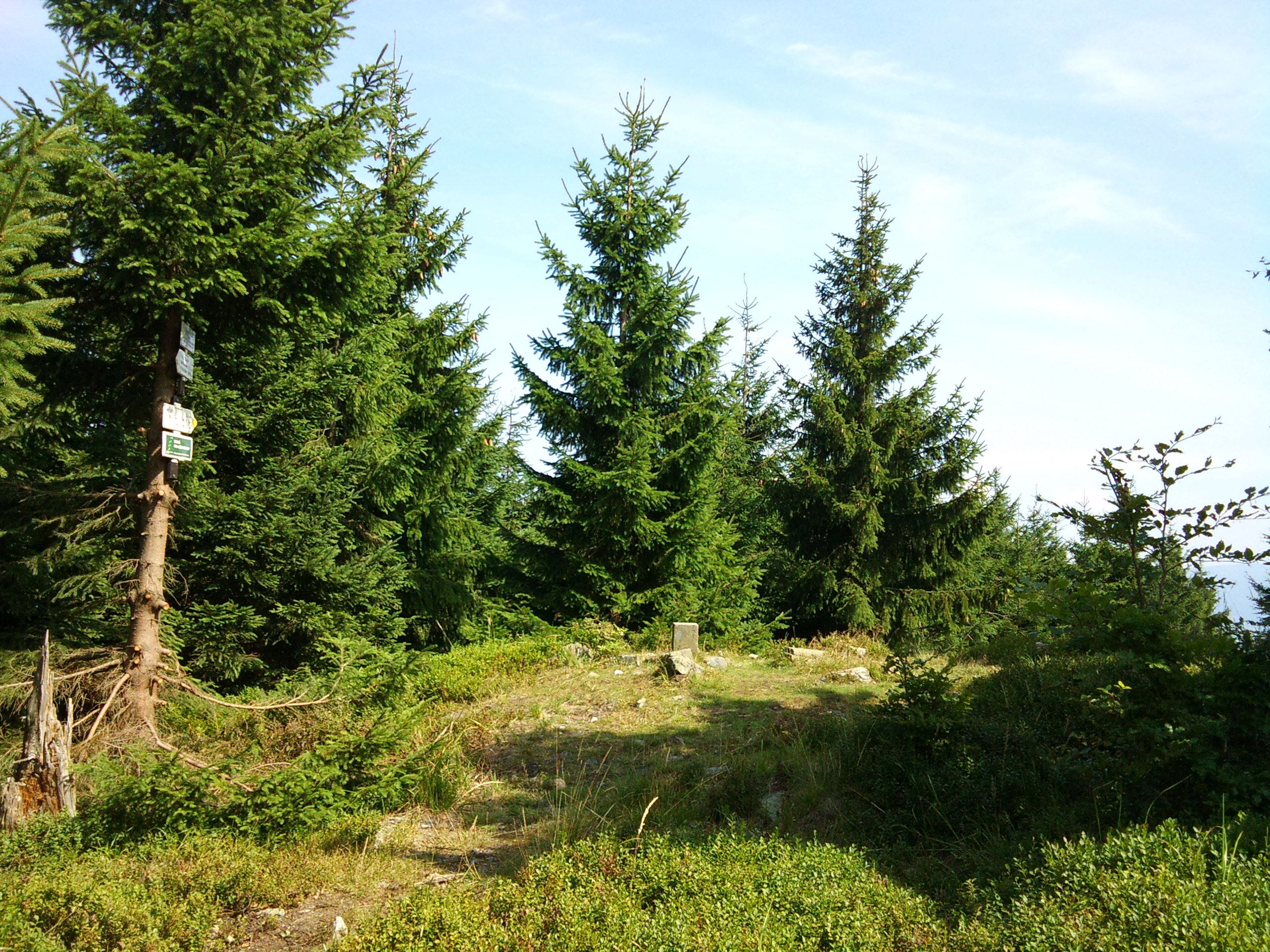 Summit of Lví hora in Rychleby Mountains.